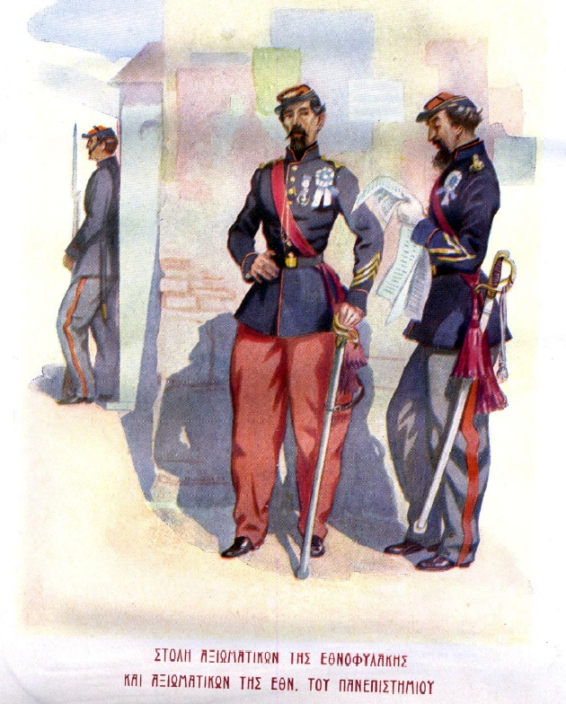 Uniforms of the National Guard during the interregnum (1862-63) after the ousting of King Otto. Officer of the National Guard (center) and officer of the University's National Guard (right).